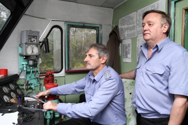 Machinest and his assistant